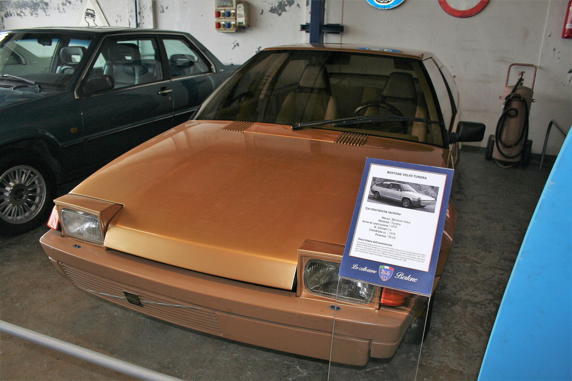 1979 Volvo Tundra concept car by Bertone. At the Bertone collection of the Automotoclub Storico Italiano (ASI), located in Volandia outside of Milan (by the Malpensa airport and museum areas).